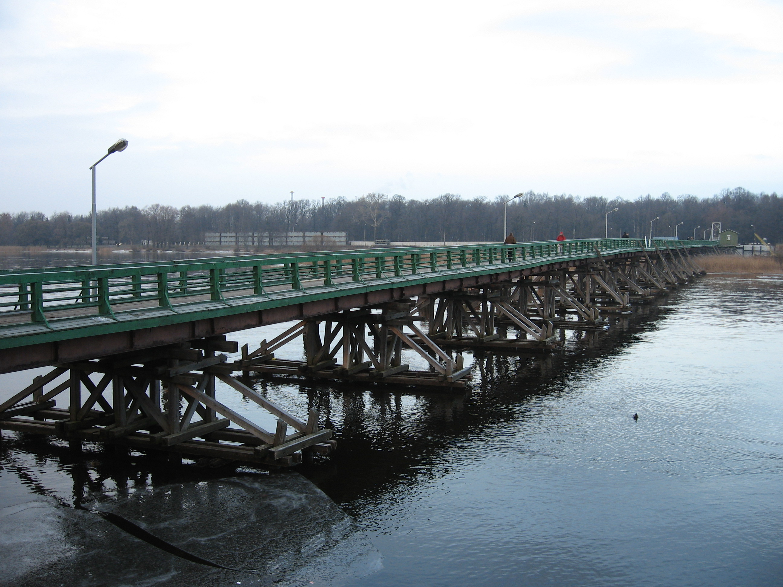 Bolshoi Petrovsky Bridge across Malaia Nevka in Saint Petersburg (before reconstruction)